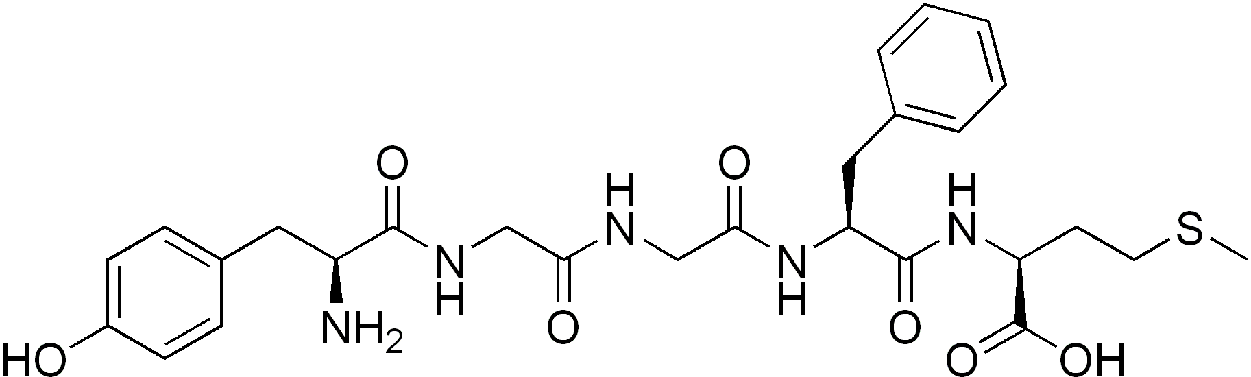 chemical structure of met-enkaphalin